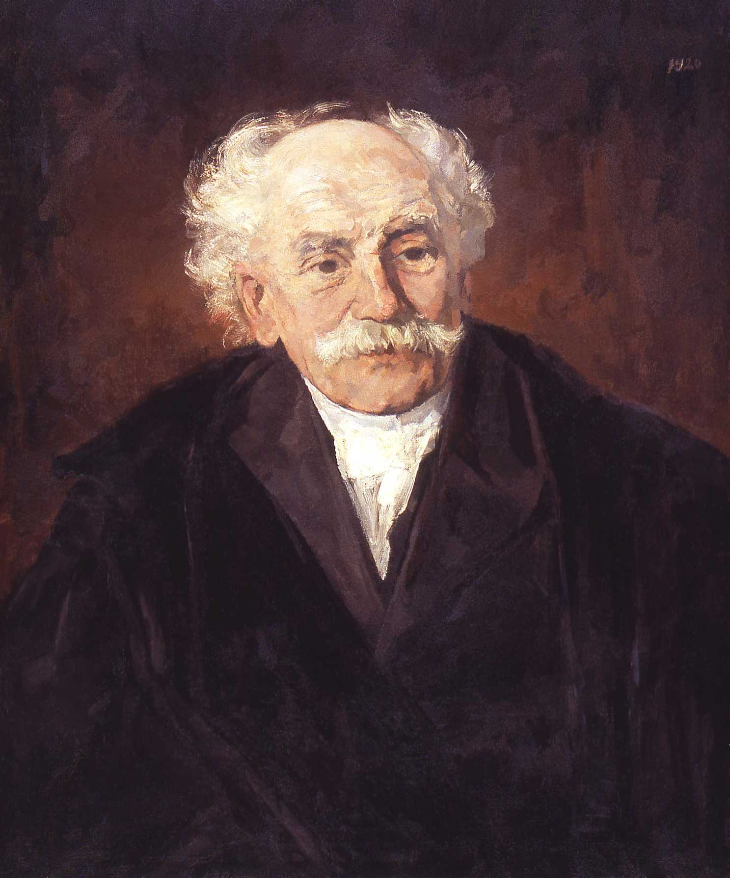 Professor Willem van der Vlugt (1853-1928), law professor Leiden University. Painting by Menso Kamerlingh Onnes (1860-1925)